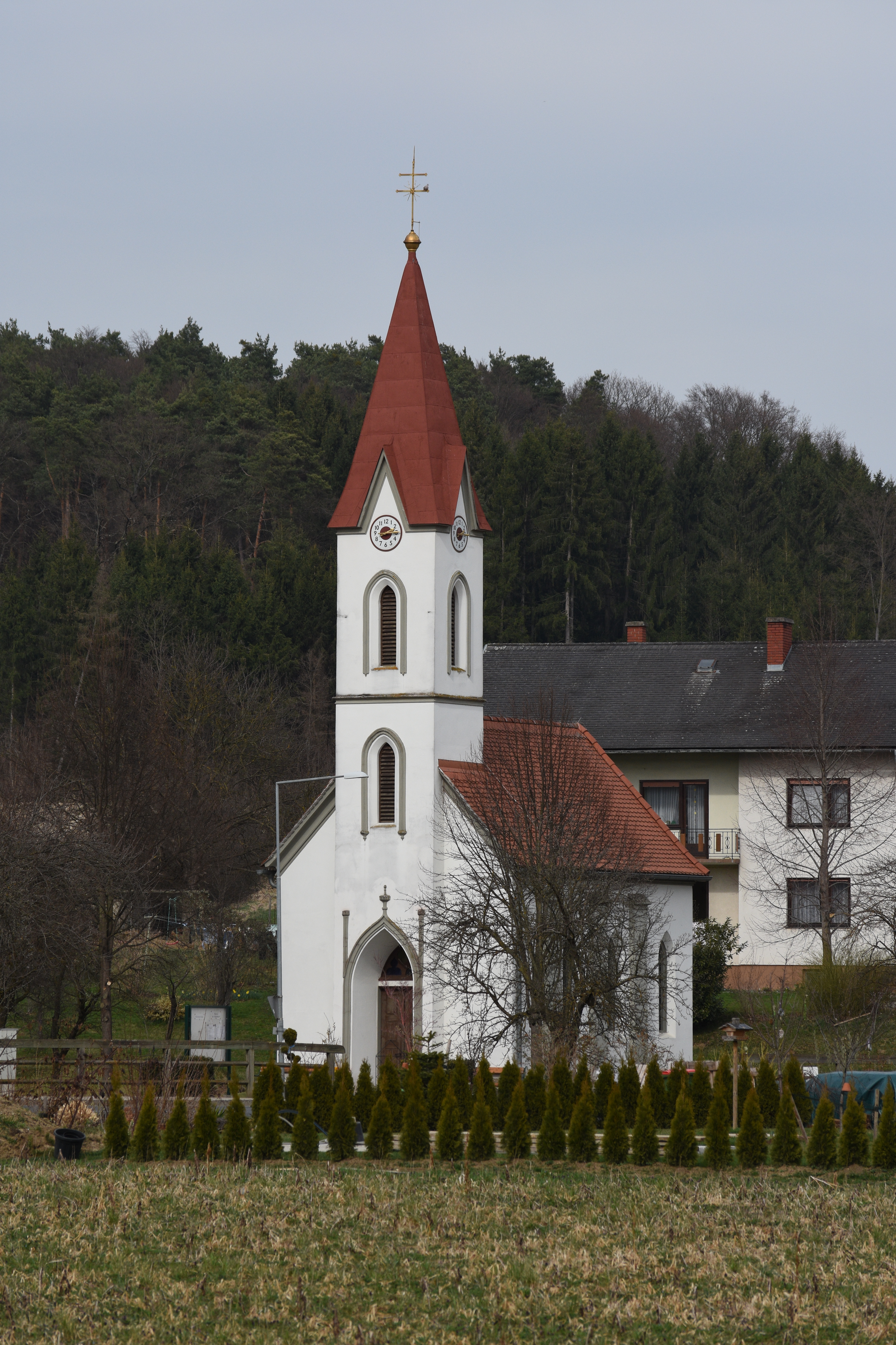 Chapel Walkersdorf